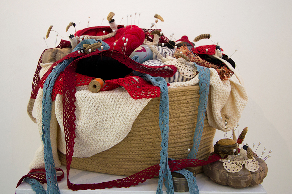 Interactive sound art sculpture made by Margaret Noble.